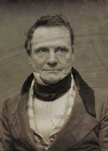 Daguerreotype of Charles Babbage